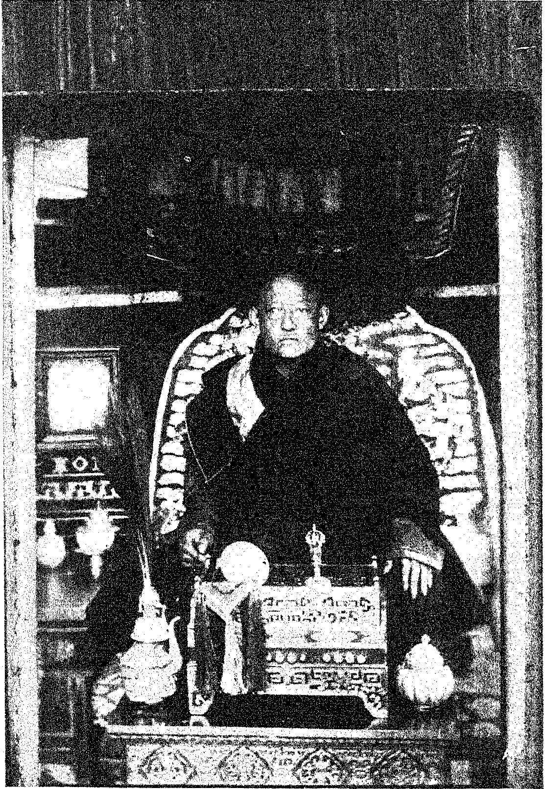 With the Russians in Mongolia FP